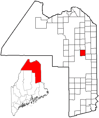 Adapted from U.S. Census Bureau maps (American FactFinder) and Wikipedia's ME county maps by Bumm13.